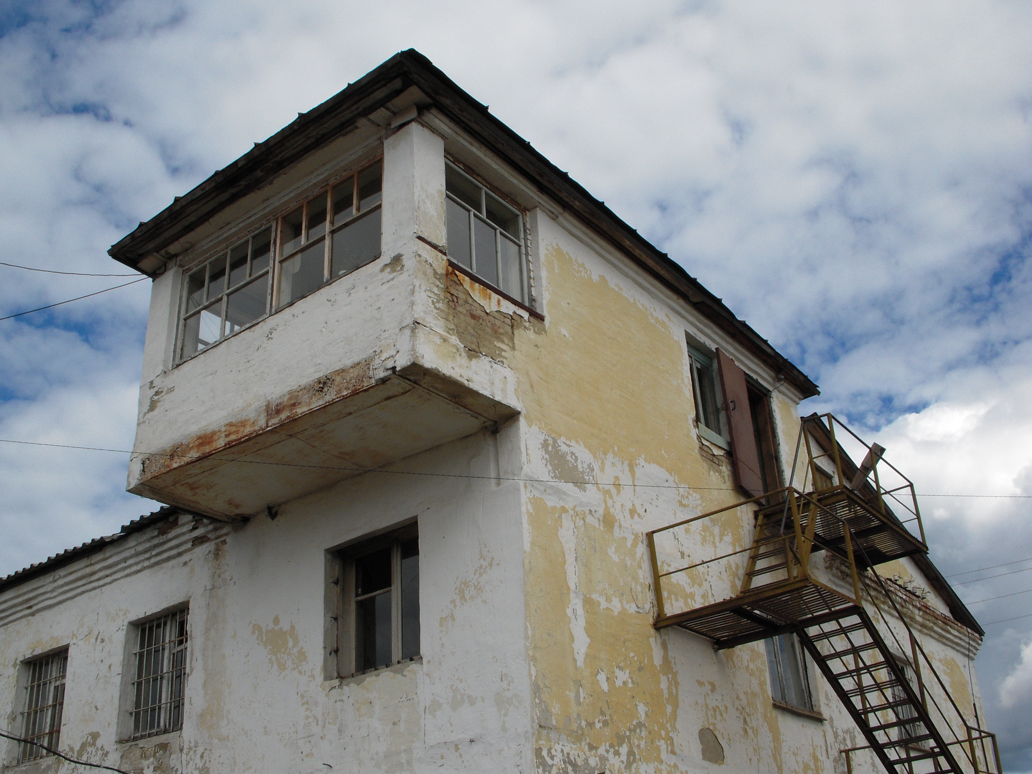 Gulag Perm-36 (Russia, Kuchino near Chusovoi). Entrance tower in the main camp.